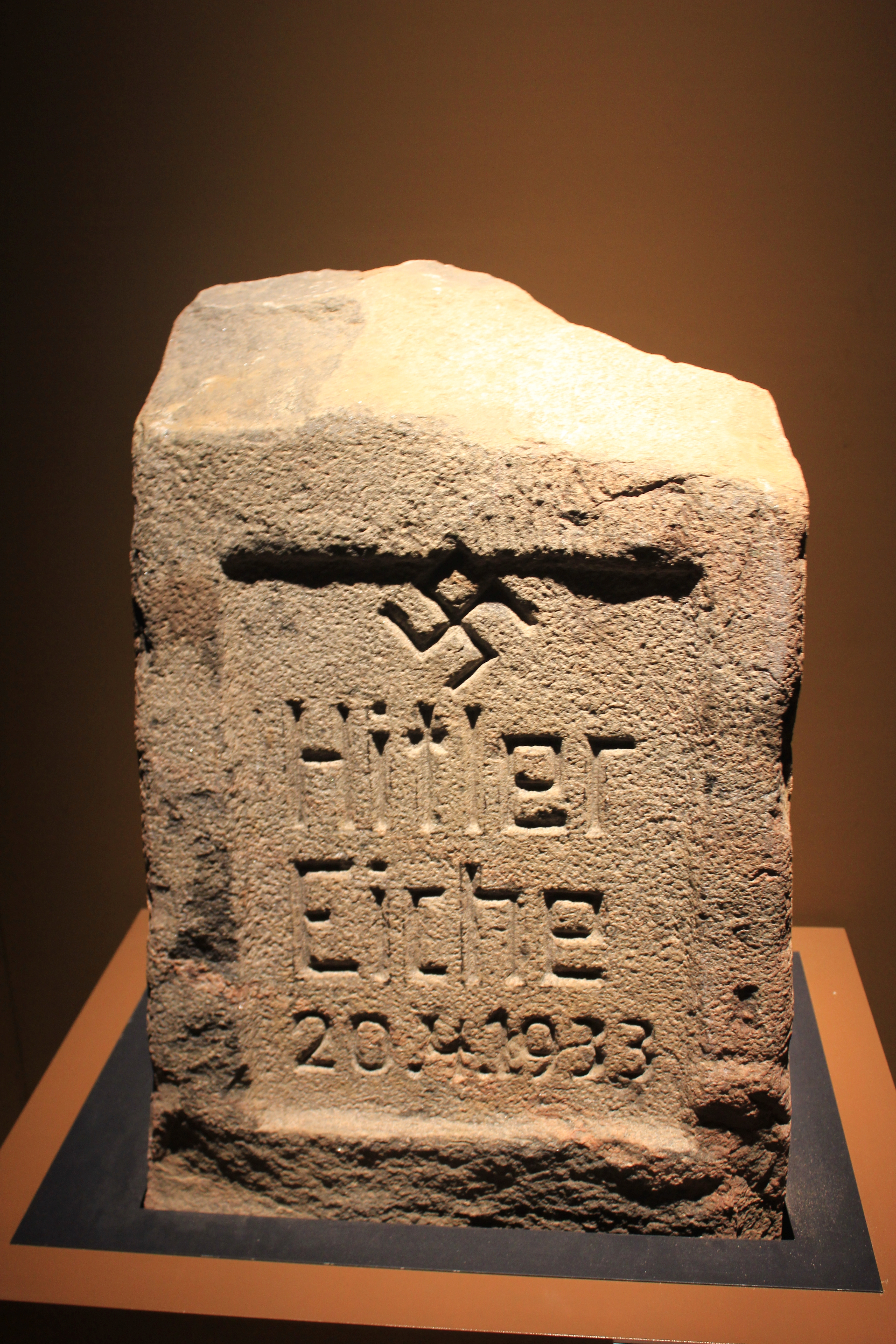 Gdańsk - Museum of the Second World War - rock from Krępa Kaszubska celebrating Hitler's birthday